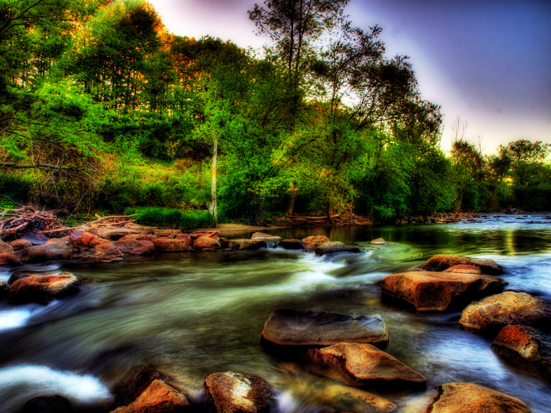 Evening ride by the water (Don River). Toronto, Canada. 6 exp hdr + orton.with the flow